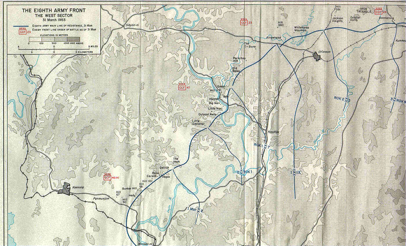 Jamestown Line, US Eighth Army main line of resistance in Korea 31 March 1953